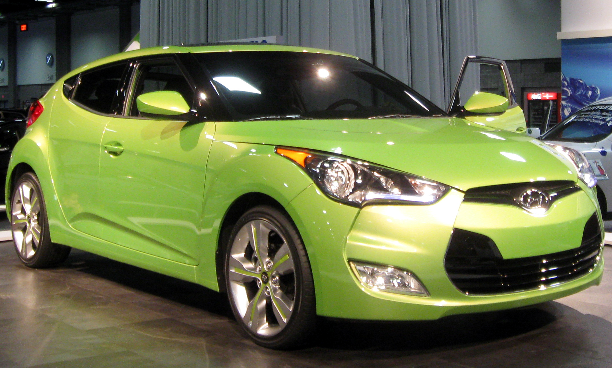 2012 Hyundai Veloster photographed at the 2011 Washington (D.C.) Auto Show.